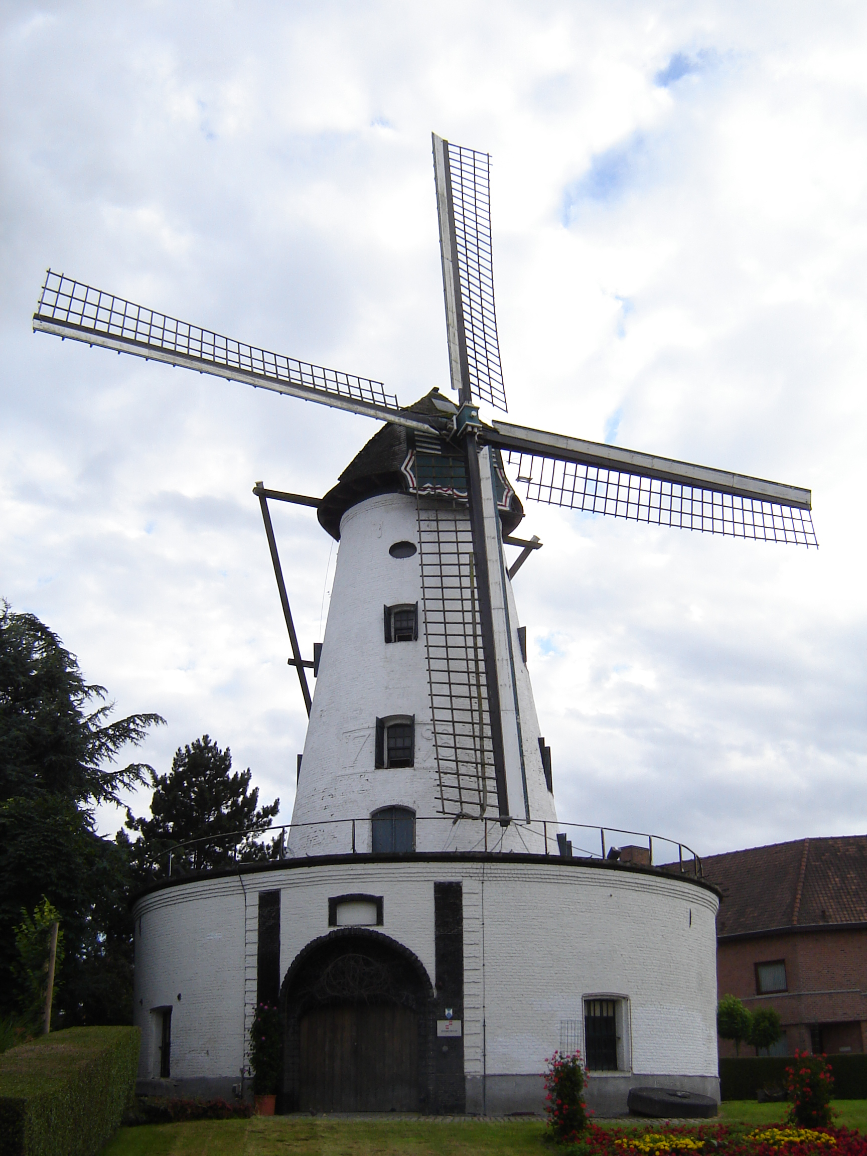 "Stenen Molen "or "Klockemolen" windmill in Zwevegem. Zwevegem, West Flanders, Belgium.